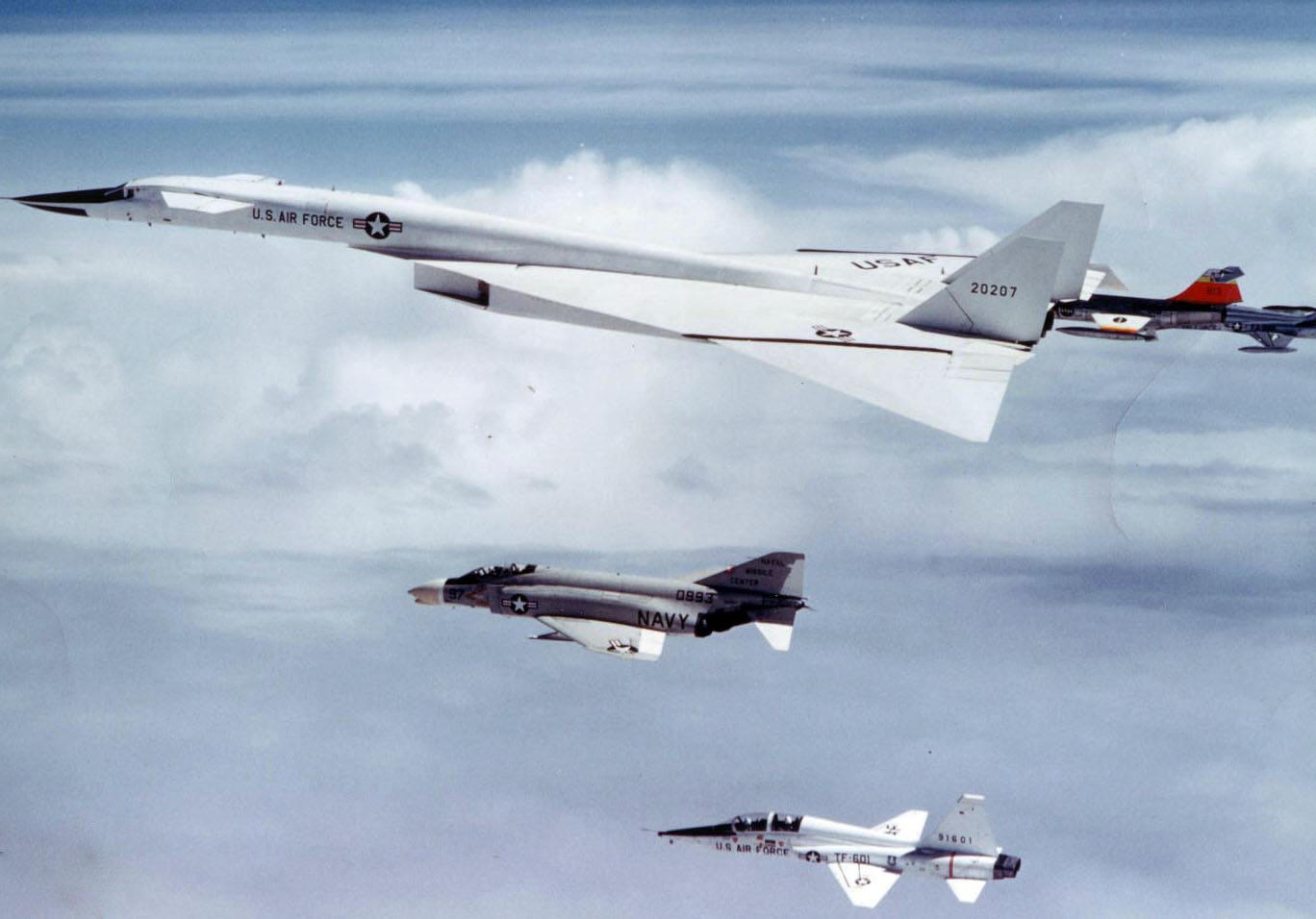 The North American XB-70A Valkyrie (s/n 62-0207) just before the collision, 8 June 1966. Other aircraft are: Northrop T-38A-15-NO (s/n 59-1601), McDonnell F-4B-15-MC (BuNo 150993), Lockheed F-104A-20-LO (aka F-104N) (s/n 56-813), and Northrop YF-5A-NO (s/n 59-4989).